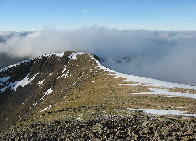 A view along the ridge of Stob Ghabar, looking towards Sron a' Ghearrain